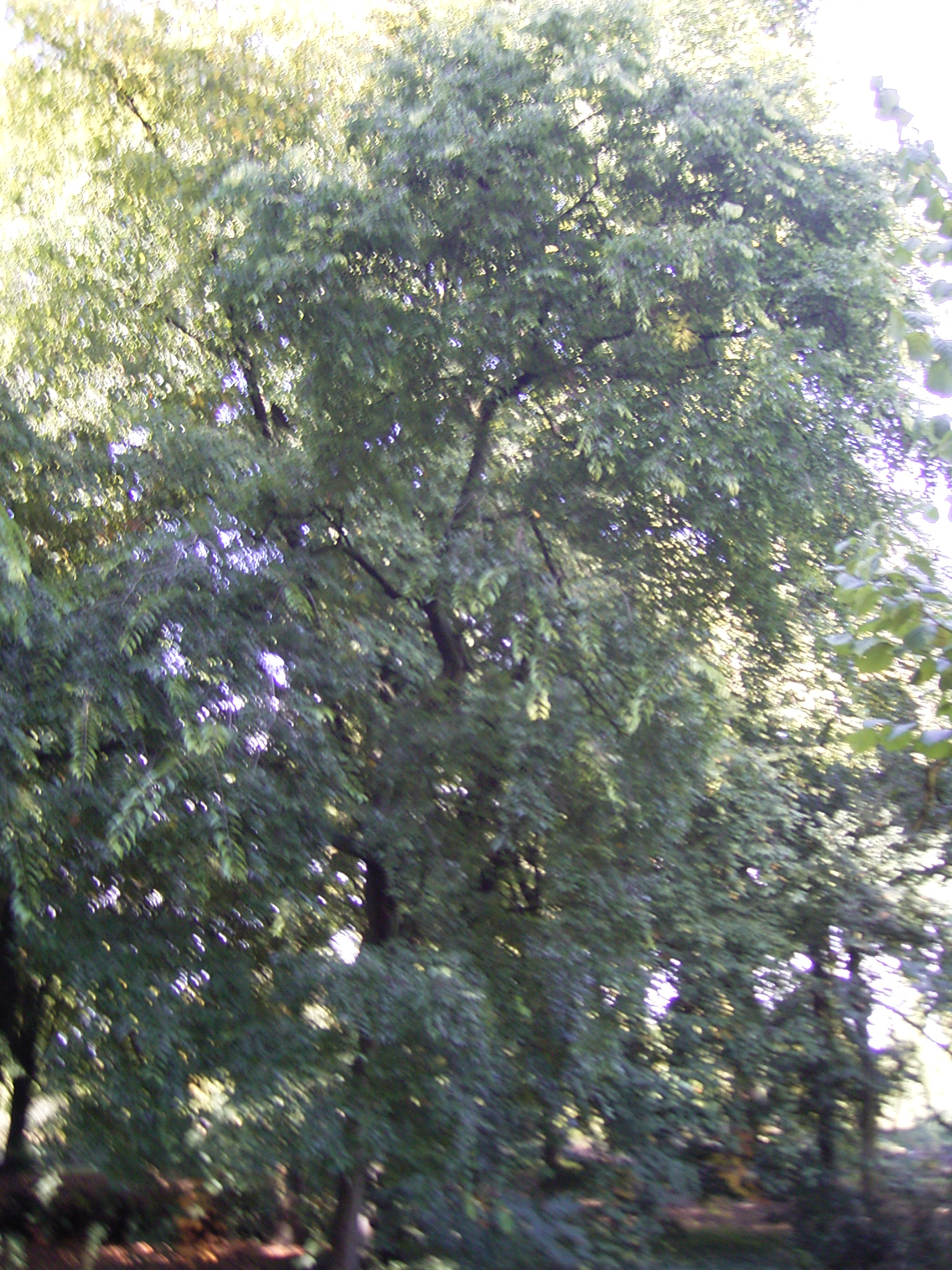 This pic shows the Celtis occidentalis. I took the photo in Wageningen, Netherlands.